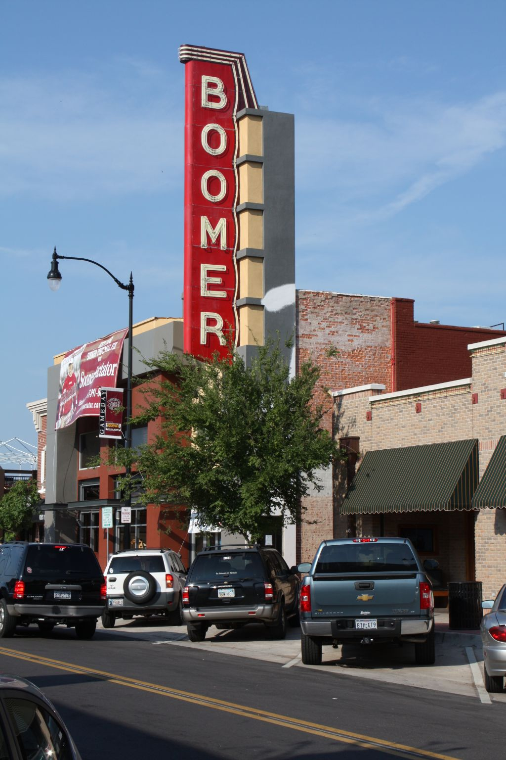 Boomer Theater — Campus Corner, in Norman, Oklahoma.